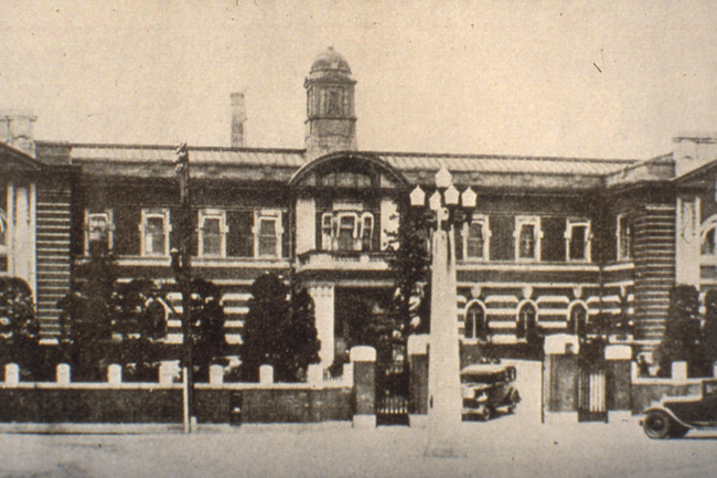 The building of Office of Crown Property, taken in 1899, Korean Empire.